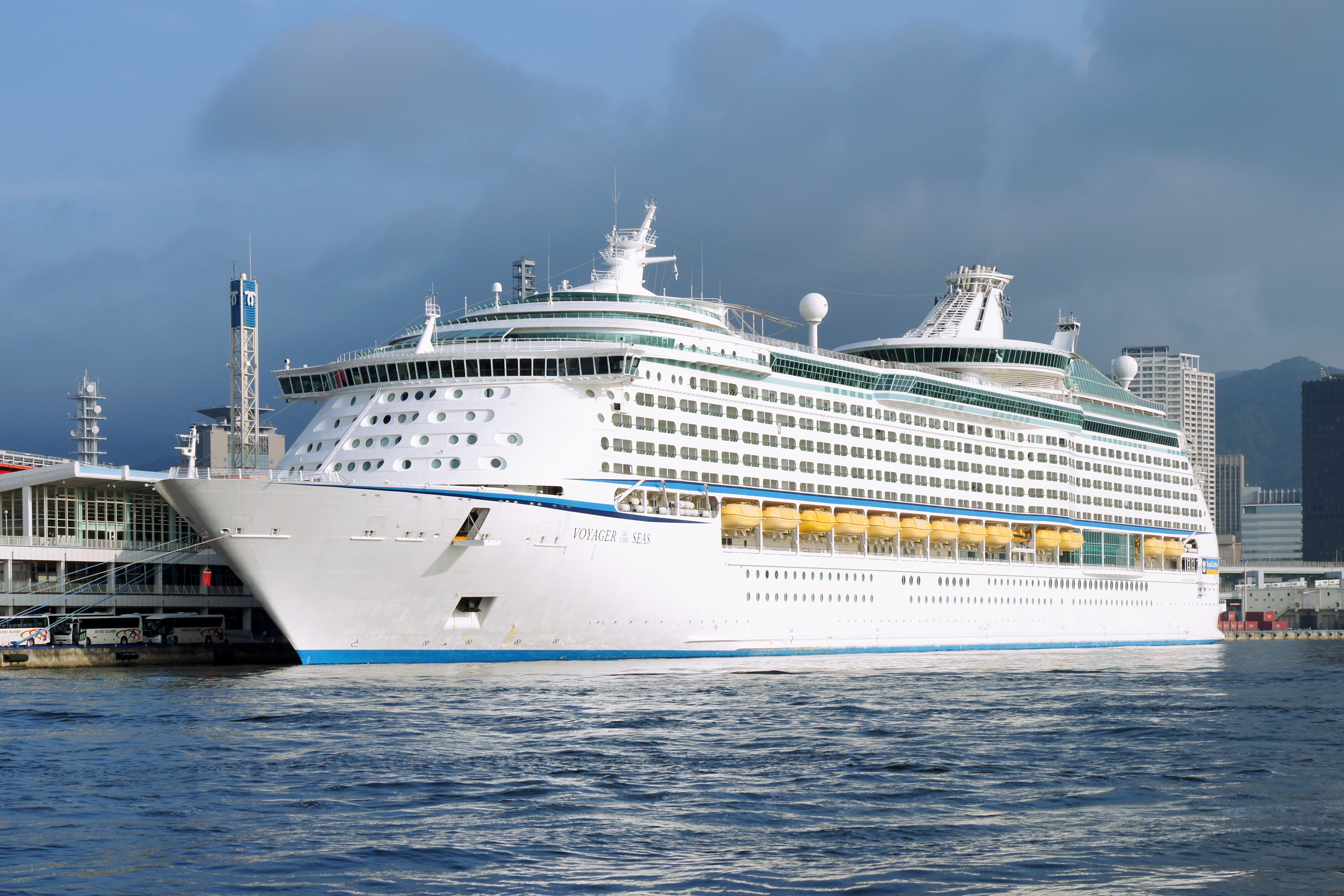 MS Voyager of the Seas who anchors at Kobe Port Terminal of the Kobe harbor ( Kobe, Hyogo prefecture, Japan)